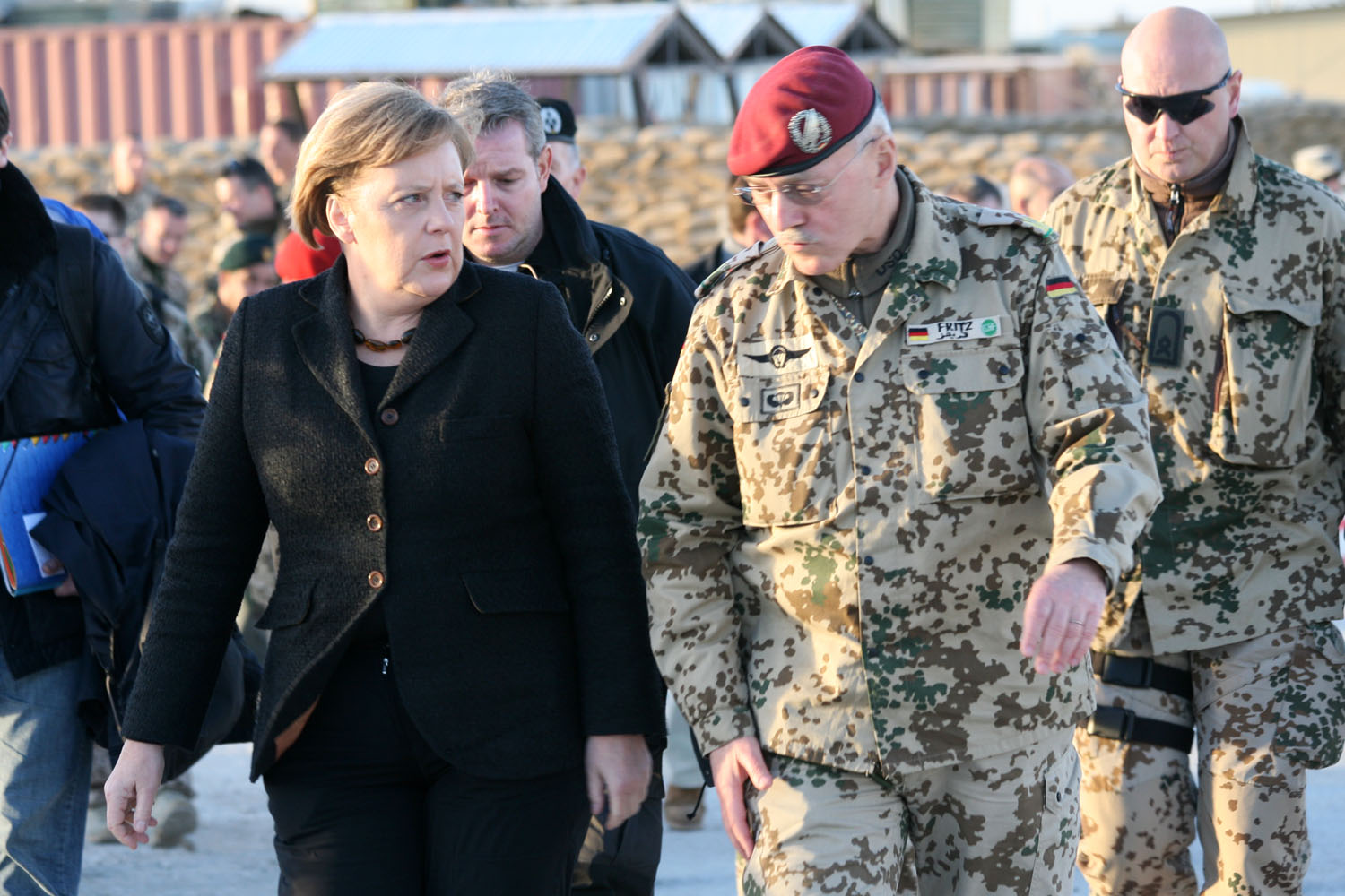 German Chancellor Angela Merkel on a visit with the German ISAF forces in Afghanistan. She is meeting with Major-General Hans-Werner Fritz, commander of the German forces in Afghanistan. original caption:A meeting was held between Gen. David H. Petraeus, commander, International Security Assistance Force, President of Afghanistan Hamid Karzai and Chancellor of Germany Angela D. Merkel, at Headquarters Regional Command North Dec. 18. ISAF RC North supports Afghanistan in creating a functioning government and administration structure, while preserving Afghan traditions and culture. (U.S. Navy photo/Mass Communication Specialist 2nd class Jason Johnston)